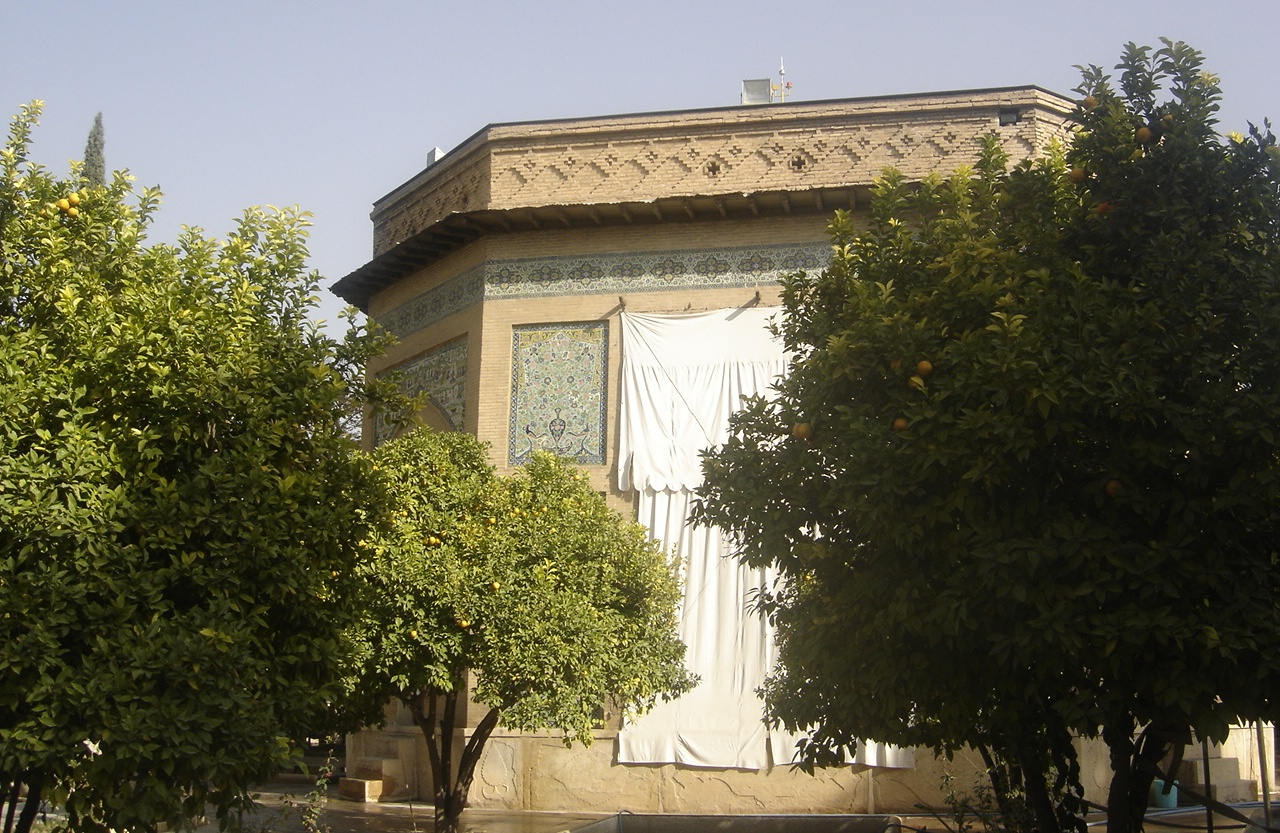 Pars Museum, Shiraz, where Karim Khan of the Zand dynasty is buried.